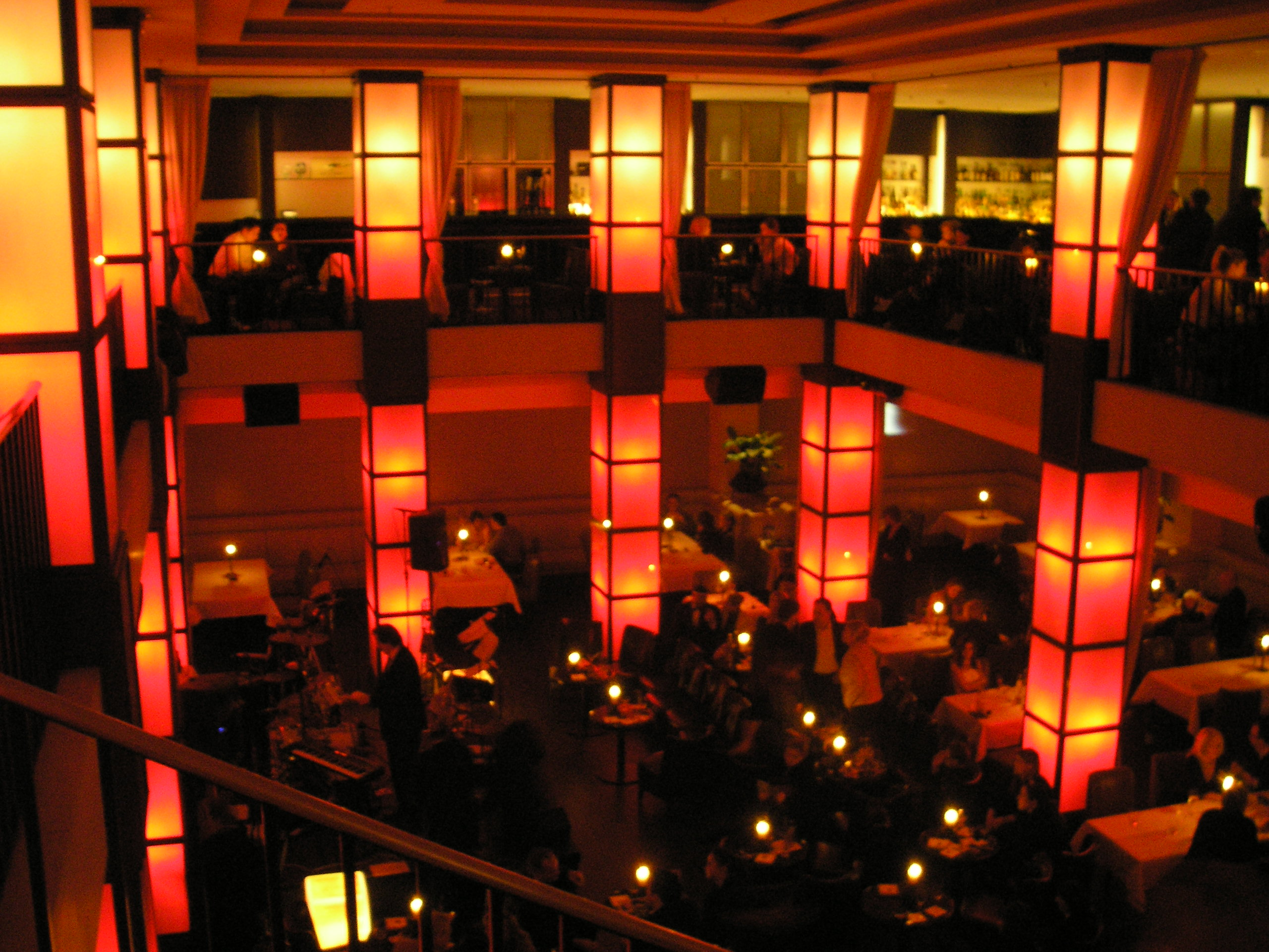 Description: Interior view of Felix ClubRestaurant at Hotel Adlon in Berlin, Jazznight. Source: self-made, I release it into the public domain. Gryffindor 18:26, 10 April 2006 (UTC)